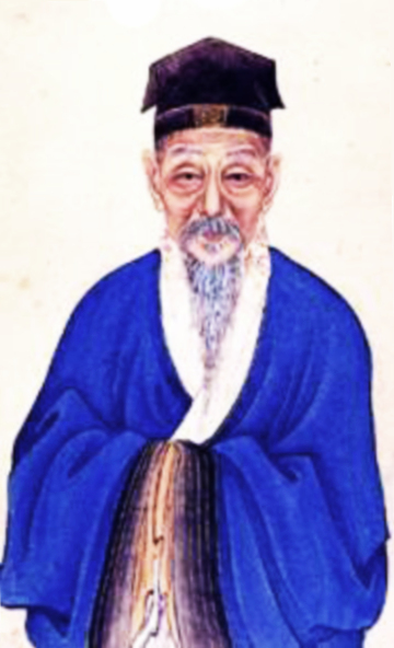 Wen Peng, Ming Dynasty artist.